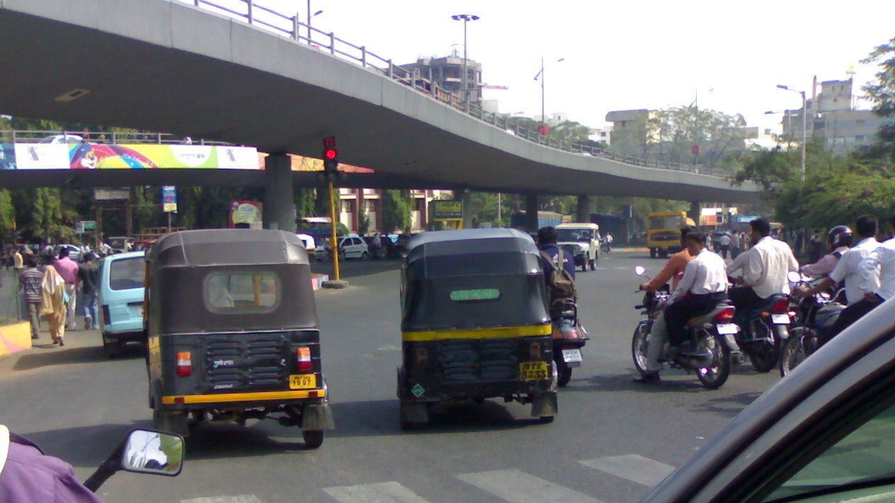 Traffic at Pune University square Pune City